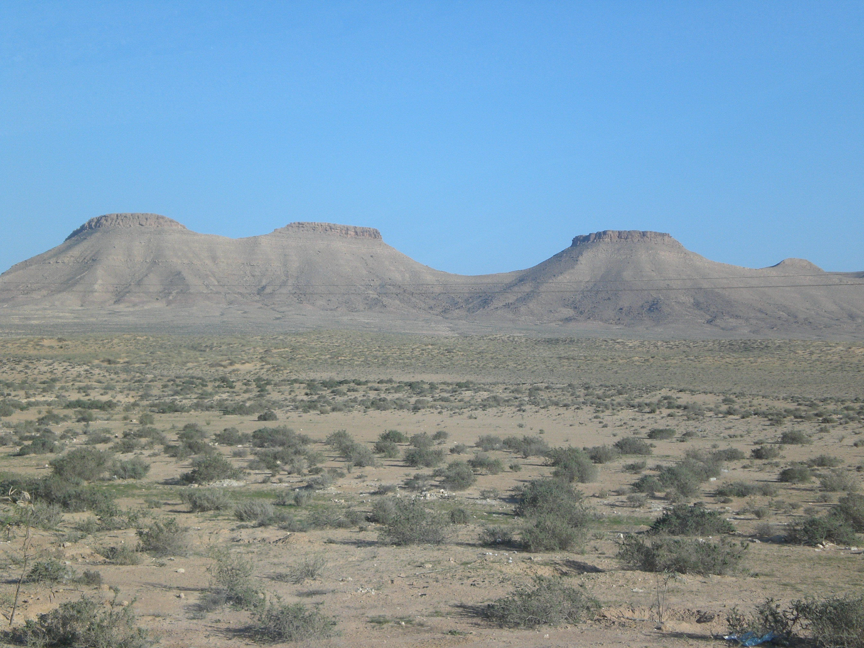 The Tebaga Mount- South Tunisia